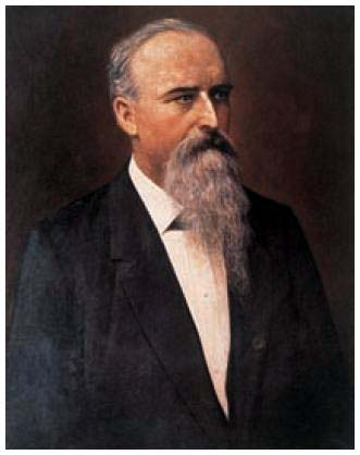 Gédéon Thommen (7.12.1831 - 18.12.1890), from Waldenburg, Canton of Basel-Landschaft, Switzerland Initiator of the Waldenburgerbahn. Picture around 1880